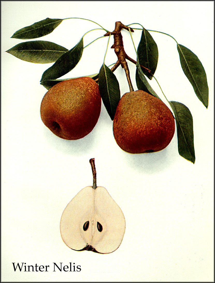 A colour plate from The Pears of New York (1921) depicting the Winter Nelis pear cultivar.